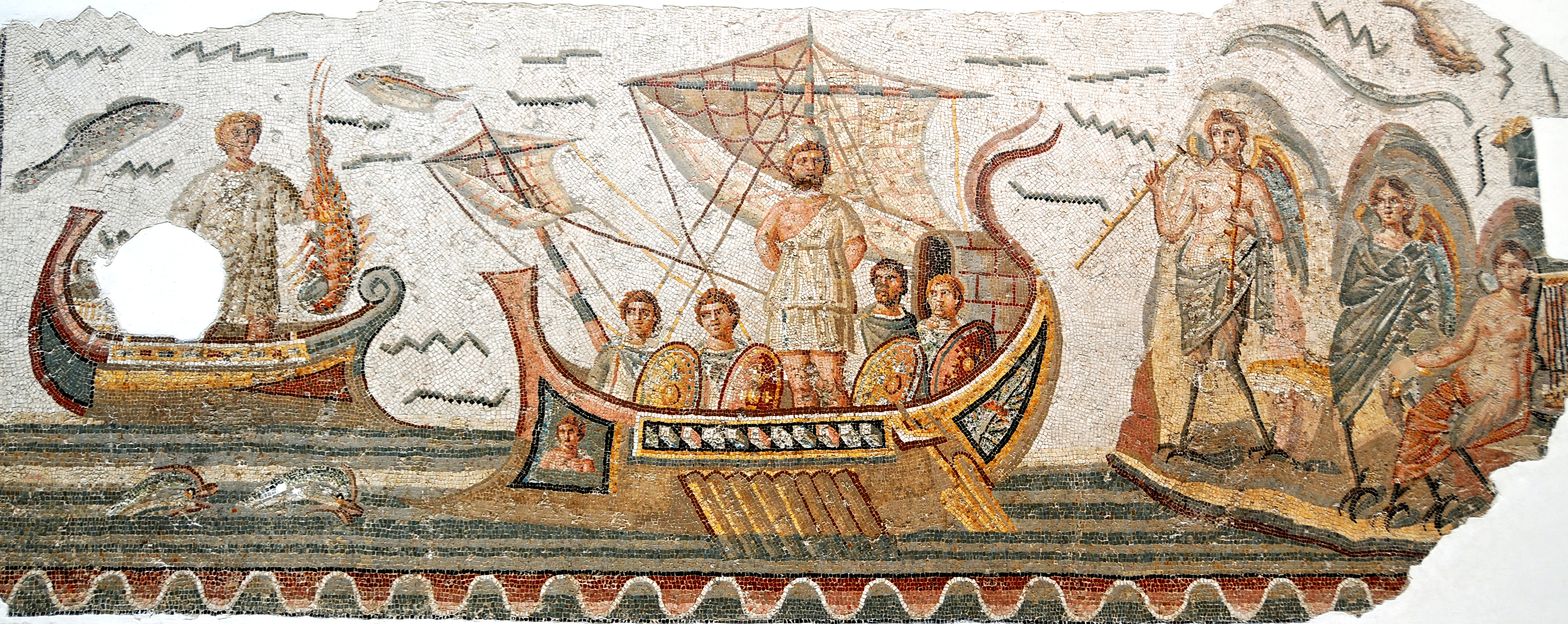 Mosaic of Ulysses tied to the mast of a ship to resist the songs of the Sirens, from Dougga, exposed in the Bardo Museum